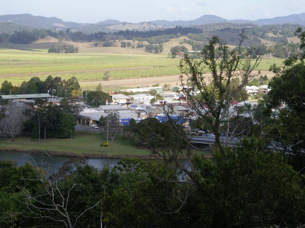 Murwillumbahand the Tweed River, NSW, Australia